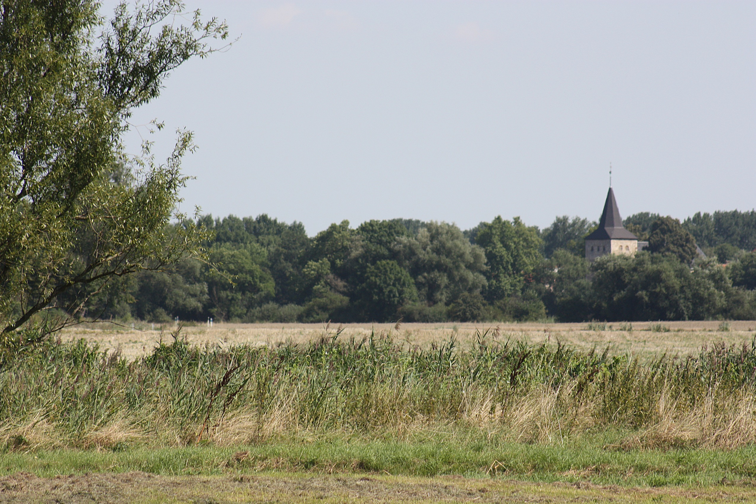 Etgersleben (Börde-Hakel), view to the village church